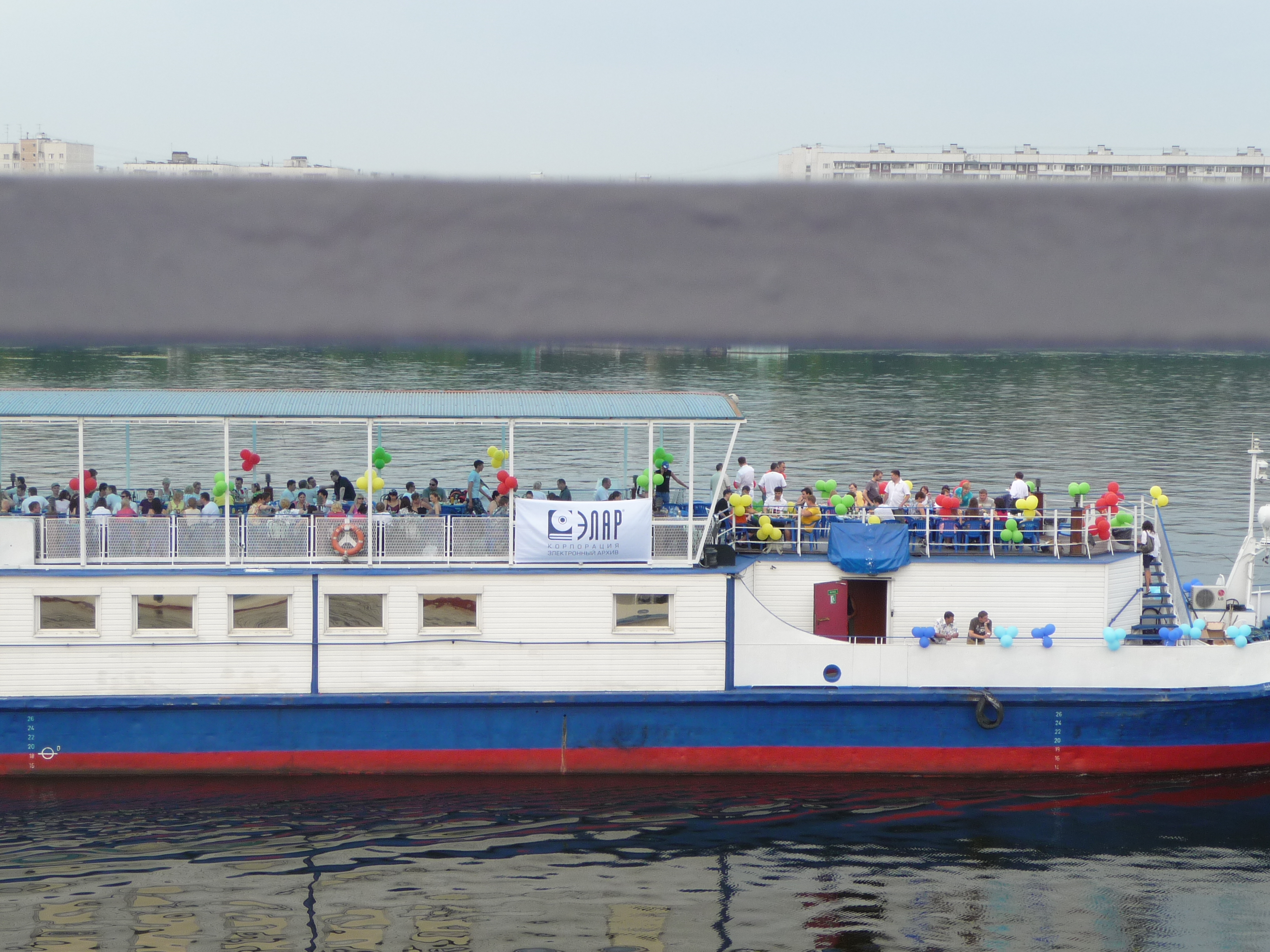 Party Boat on the Volga River